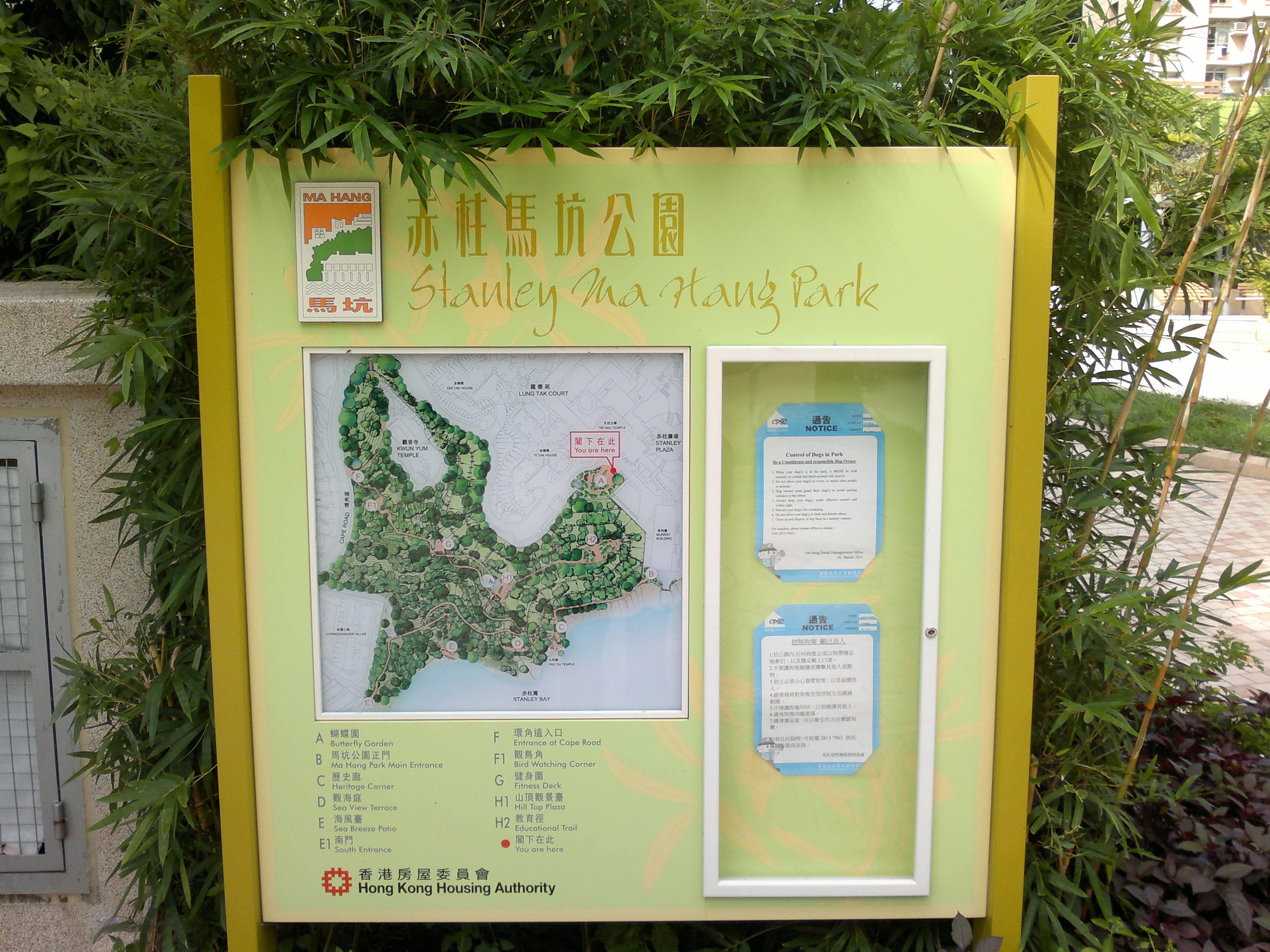 Stanley Ma Hang Park Directory